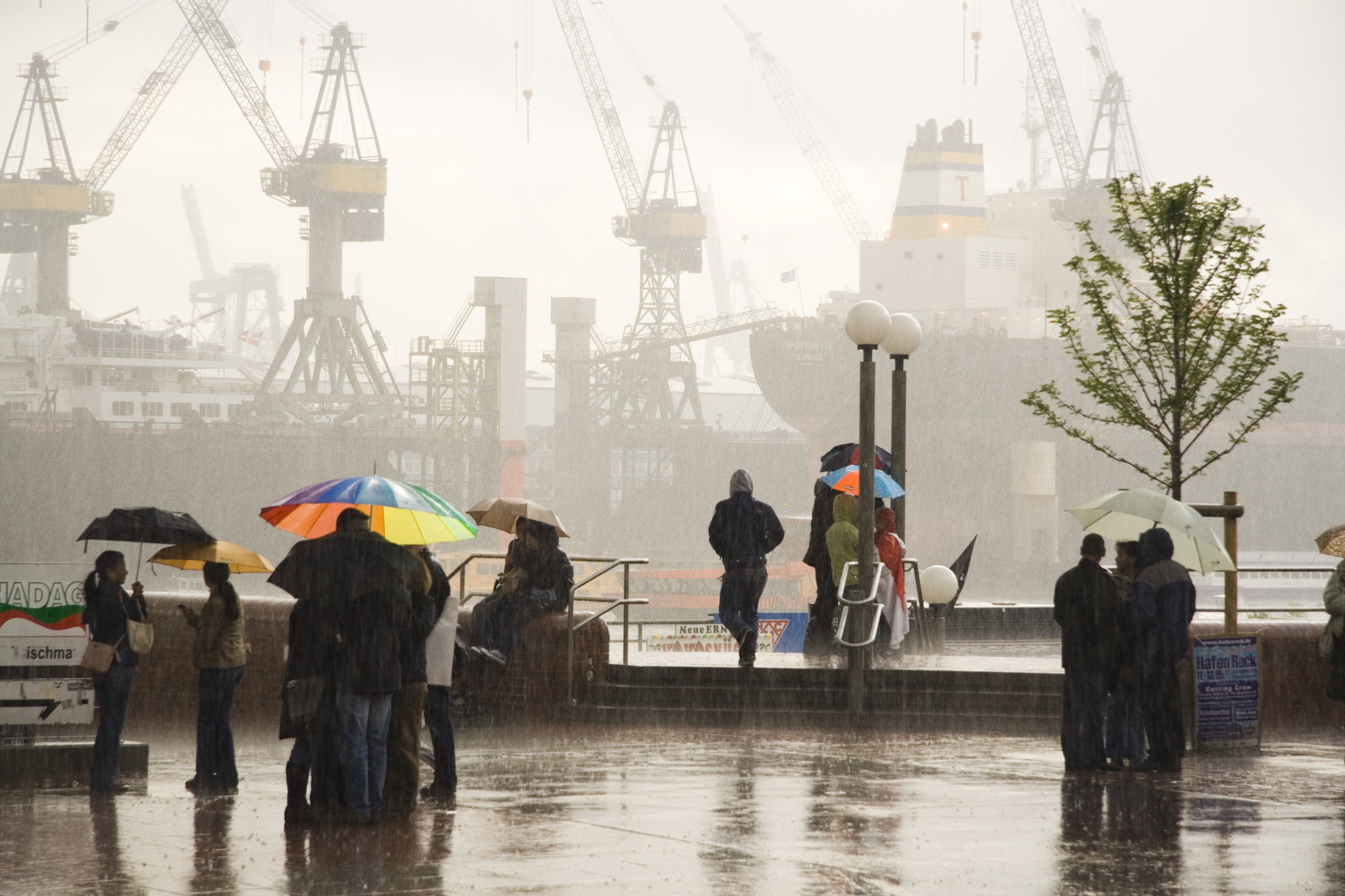 Typical Hamburg weather at the docks, Hamburg harbour.